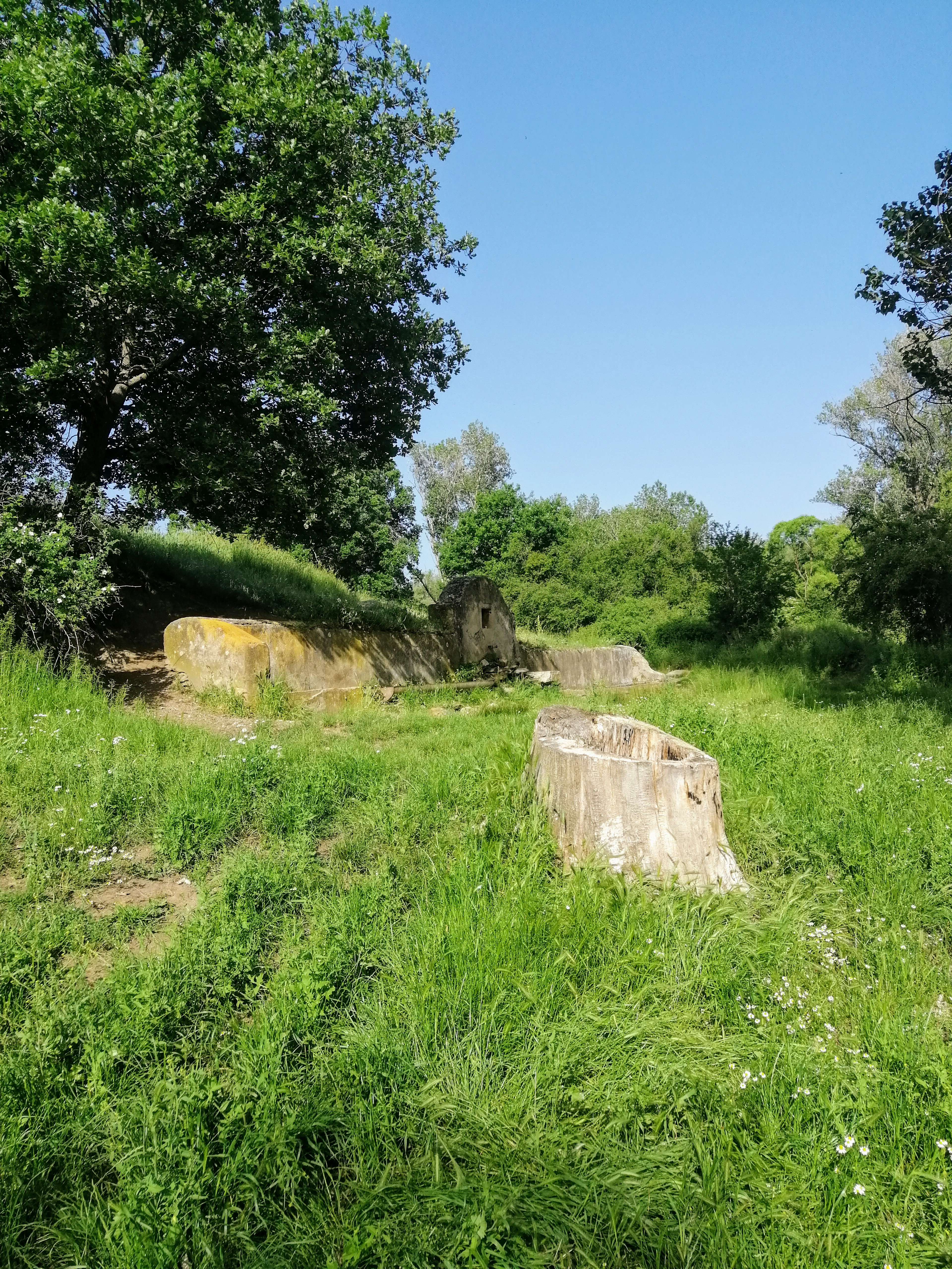 View of the village pump in the village Crničani